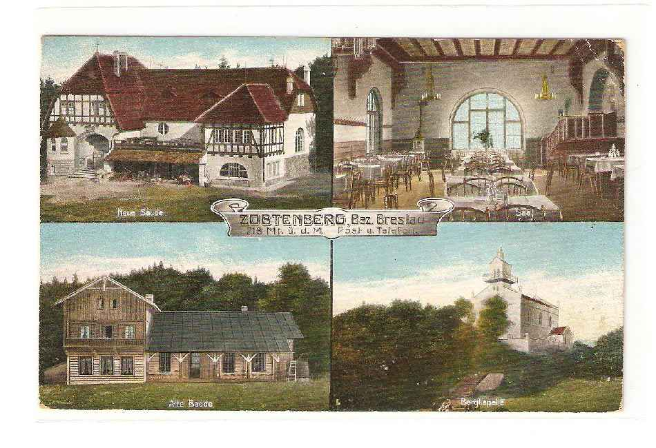 Old postcard - mountains hostels in Zobtenberg (today Ślęża)